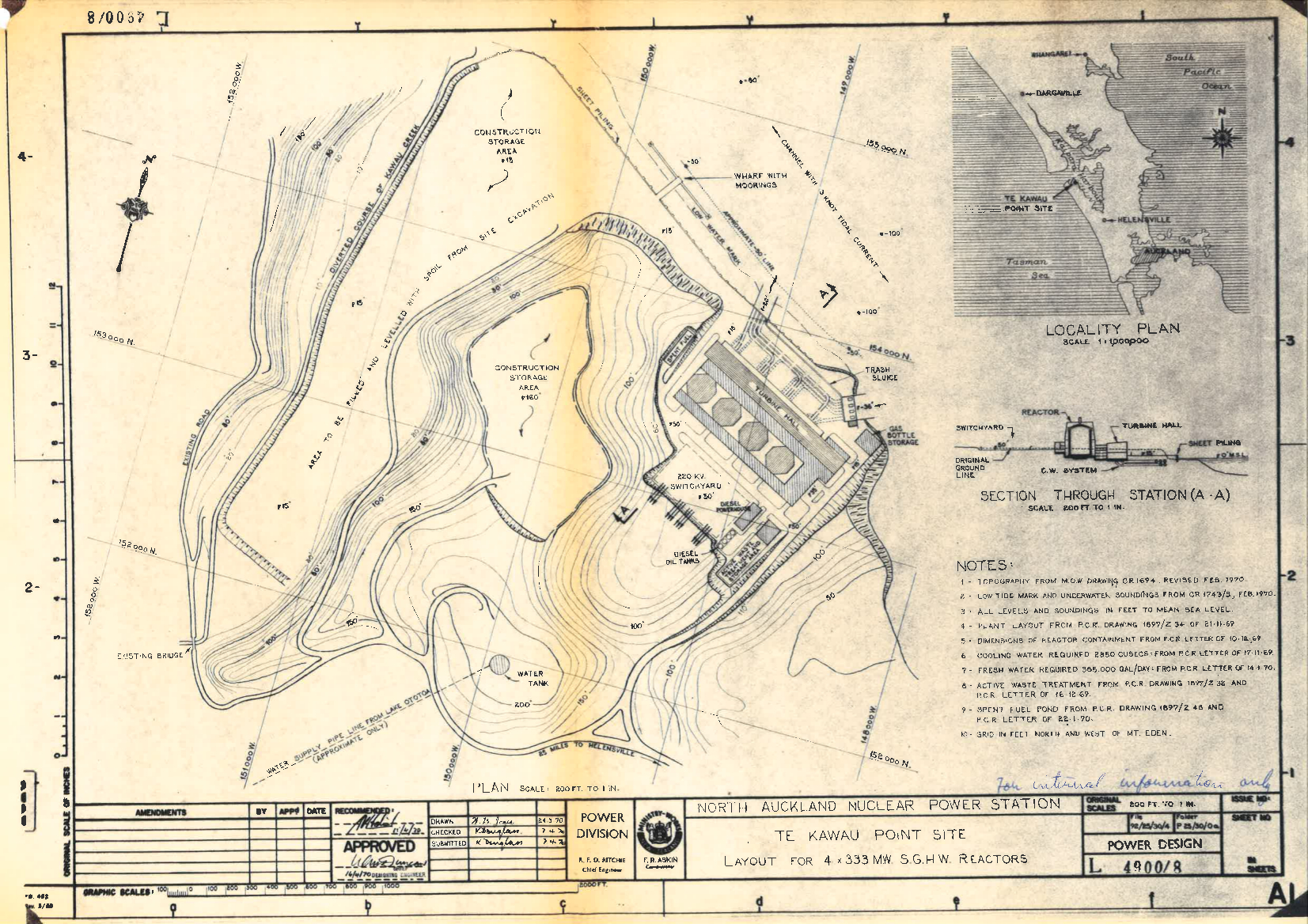 This plan for a nuclear power plant on Kaipara Harbour is from an Auckland Ministry of Works file. In the 1960s it was felt that nuclear power generation would be needed to supply increasing demands for electricity, especially in the Auckland region. In 1966 the Minister of Labour was quoted as saying that the first nuclear power station would be north of Auckland, probably in Kaipara, then a second south of Auckland, which could serve both Auckland and Hamilton. The third station would probably be in central Auckland “from developments overseas we believe that the construction of [nuclear power] stations in the centre of cities within 15 years or so will be acceptable.” When a site had been selected by the Siting Sub-committee of the New Zealand Atomic Energy Committee, the timetable was: call for tenders in 1970, order the plant in 1971, start building in 1972 and start generating in 1977. [BBAO 1054/505/c] However, the site investigation work at Kaipara was closed down in 1971, and New Zealand remained nuclear free. Archives New Zealand Reference: BBFY 1054 A1179/841/b Power Generation and Transmission - Power Stations - Nuclear Power Station Kaipara Harbour - general - 1970-1982